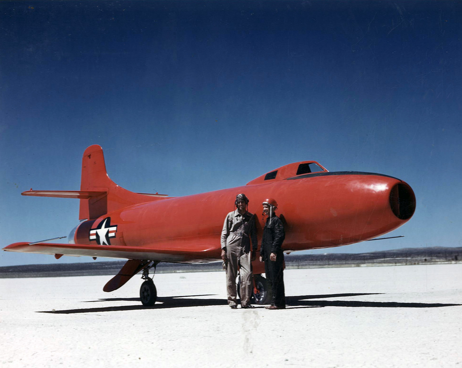 U.S. Marine Major Marion Carl (left) and U.S. Navy Commander Turner F. Caldwell stand next to a Douglas D-558-1 Skystreak at Muroc Army Airfield (later Edwards Air Force Base) in California (USA). Both Carl and Caldwell established world speed records in D-558-1 type aircraft in 1947.